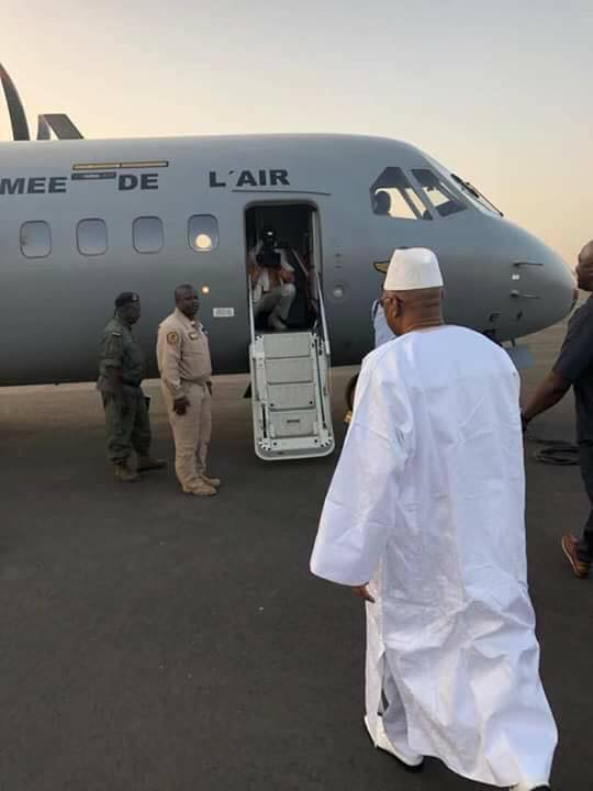 Malian Prime Minister Soumeylou Boubeye Maïga in official visit in Tessalit, 22 March 2018 (VOA/Kassim Traoré)Since the Malian Armed Forces (FAMA) are credited, the photograph may have been taken during the boarding of the minister in Bamako.